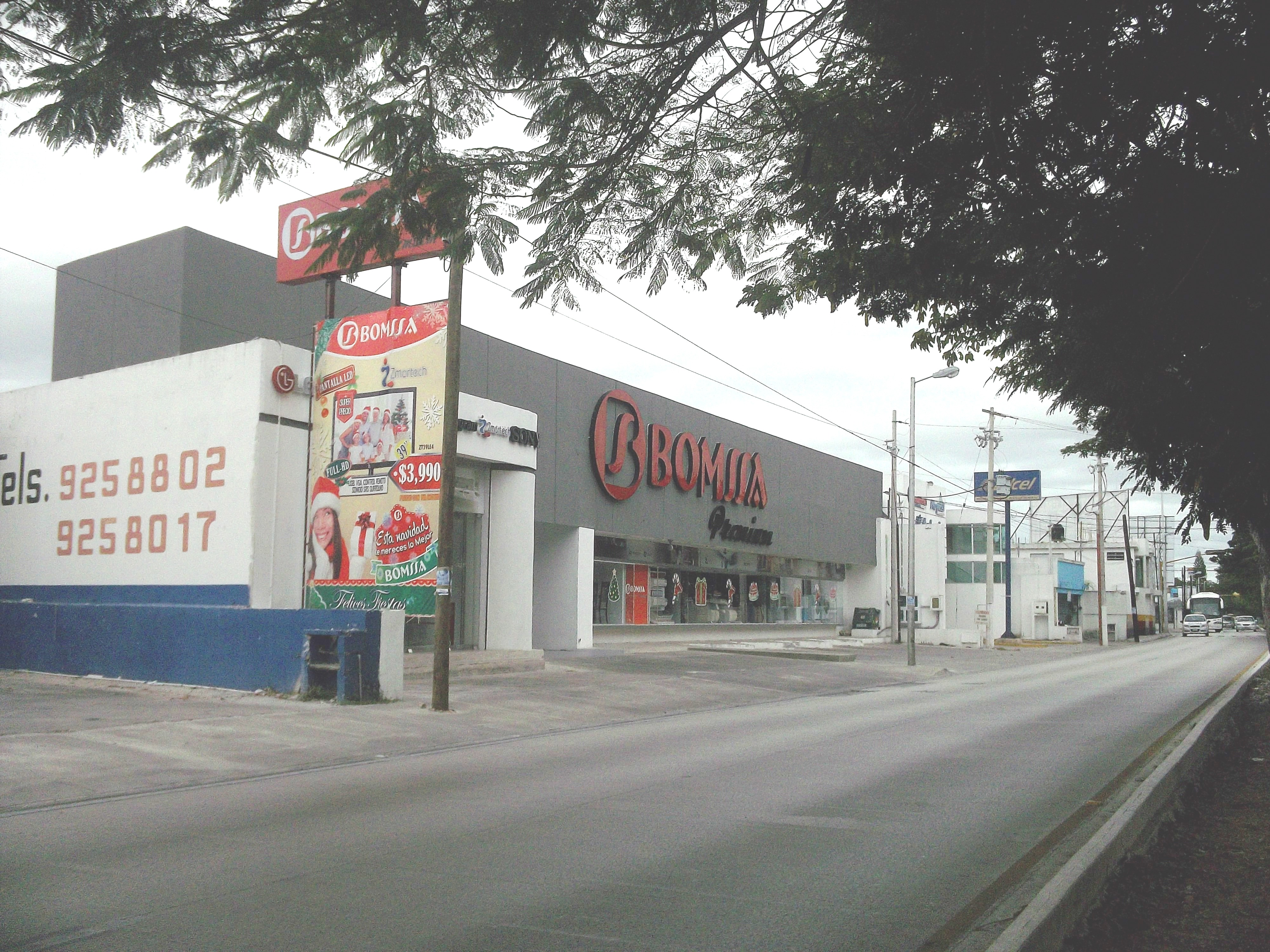 BOMSSA store, Mérida, Yucatán, selling electronic appliances. Calle 60 (Carretera Federal 261), Colonia Chuburna